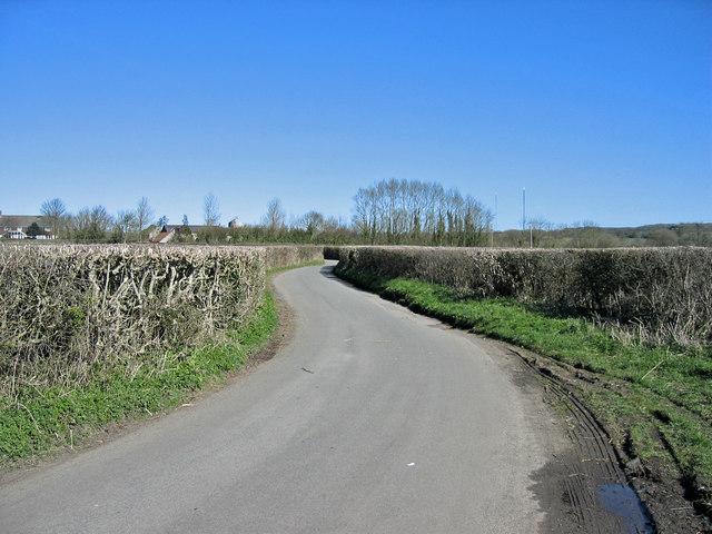 Minor road near Great Hamston, west of Cardiff. Minor road between Great Hamston and North Cliff Farm, south of Dyffryn